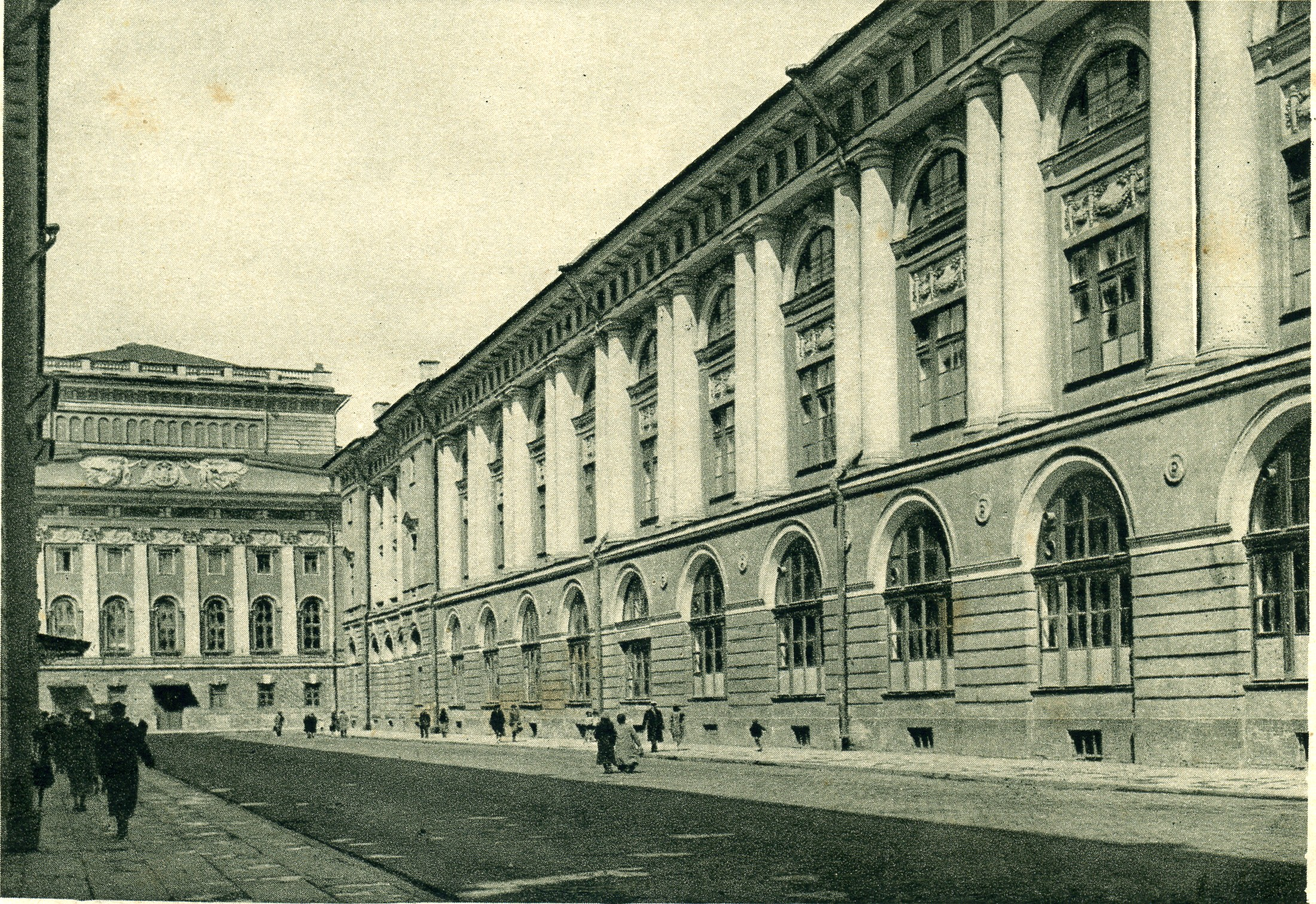 Architect Rossi street. Old postcard (1929). Russian National Library.